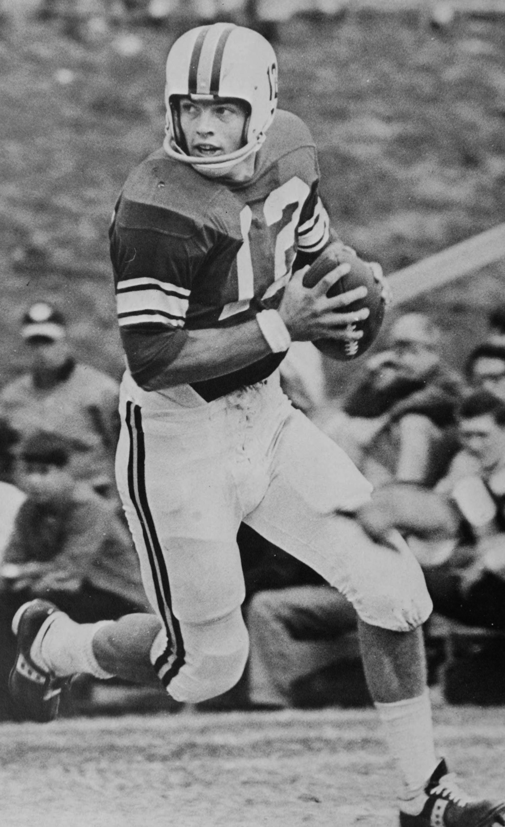 Alan Pastrana rolls out of the pocket as quarterback at the University of Maryland in 1966.